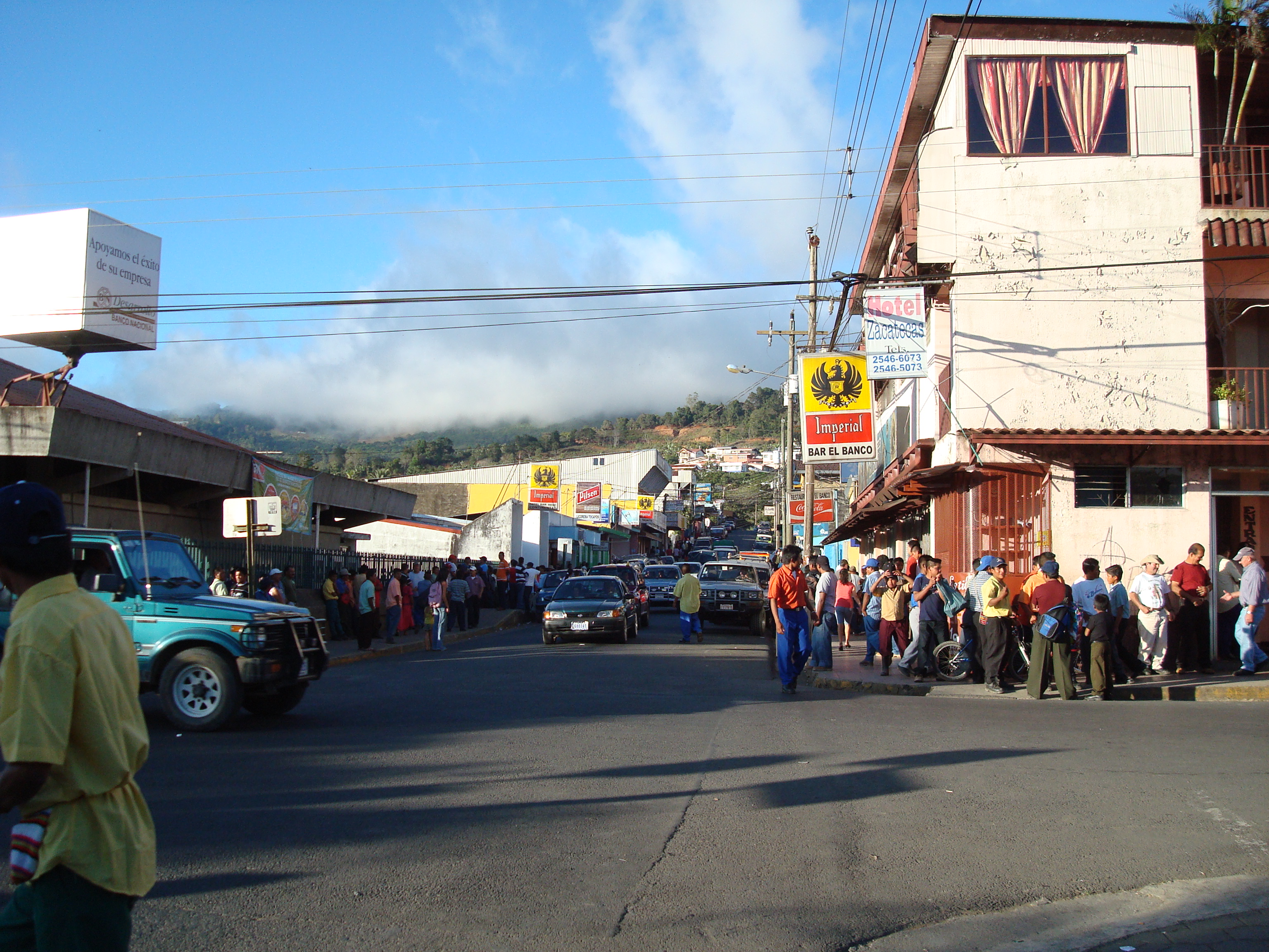 Jorge Umana